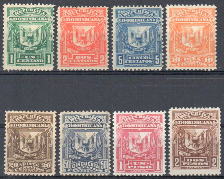 Dominican Republic 1885-1891 Sc. #88-95 mint set.